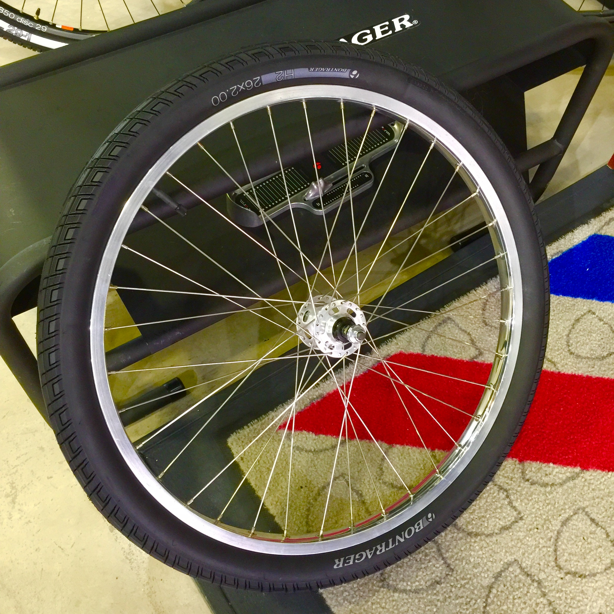 26 x 2.00 Bontrager urban tire mounted on classic 559mm Araya rims